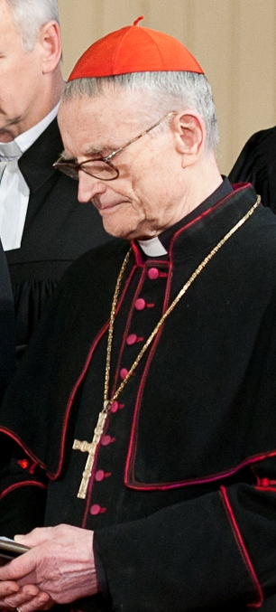 Jānis Pujats, cardinalLatviešu: Jānis Pujats, kardināls Foto: Saeima